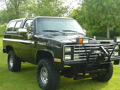 K5 Blazer equipped for Snow Plowing